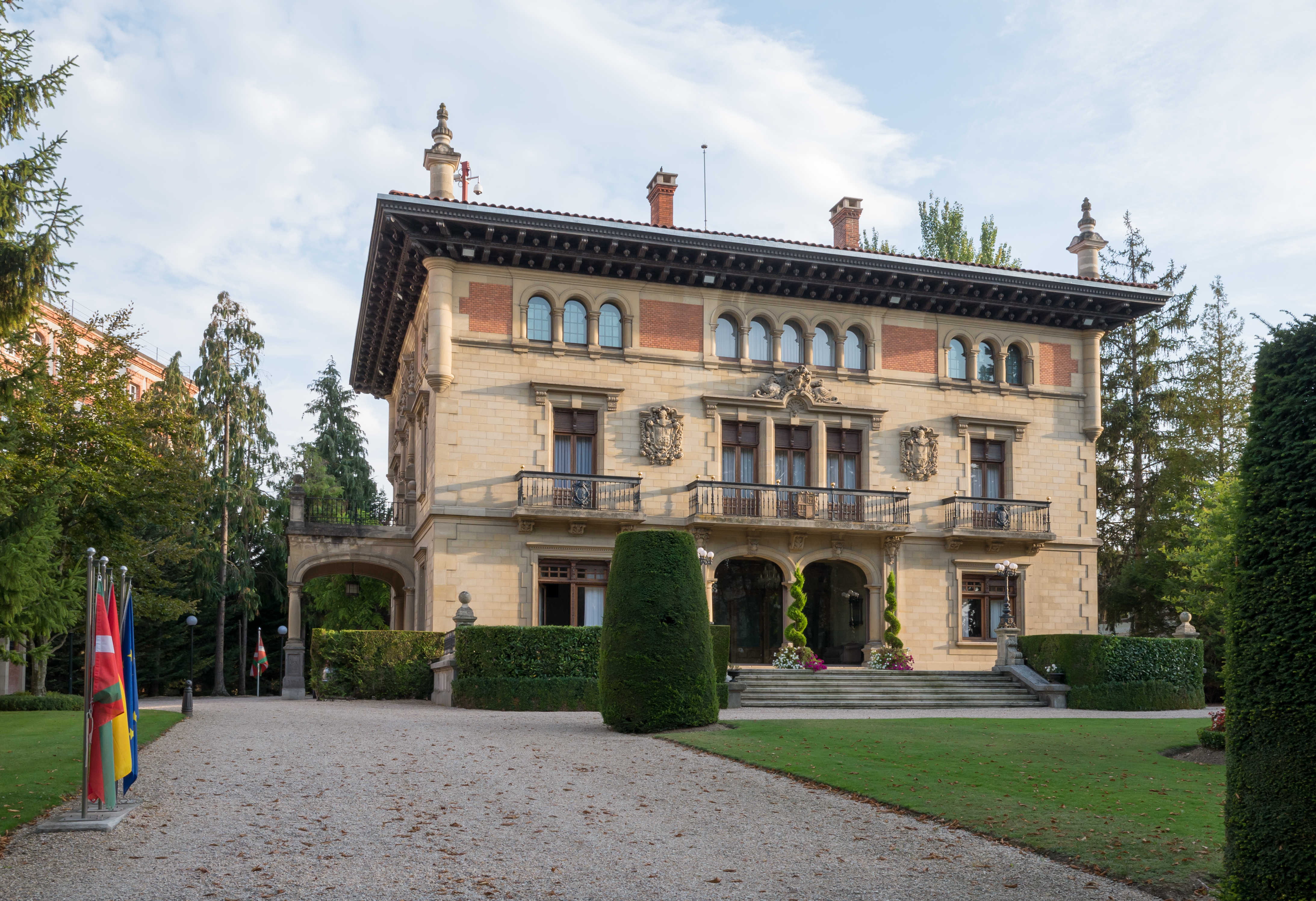 Mansion "Ajuria Enea", residence of the Lehendakari (basque prime minister). Vitoria-Gasteiz, Basque Country, Spain